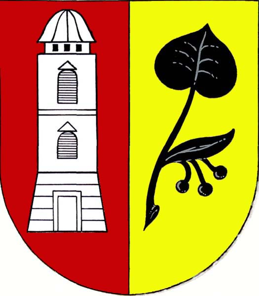 Coat of amrs of Bobnice , District Nymburk, Czech Republic